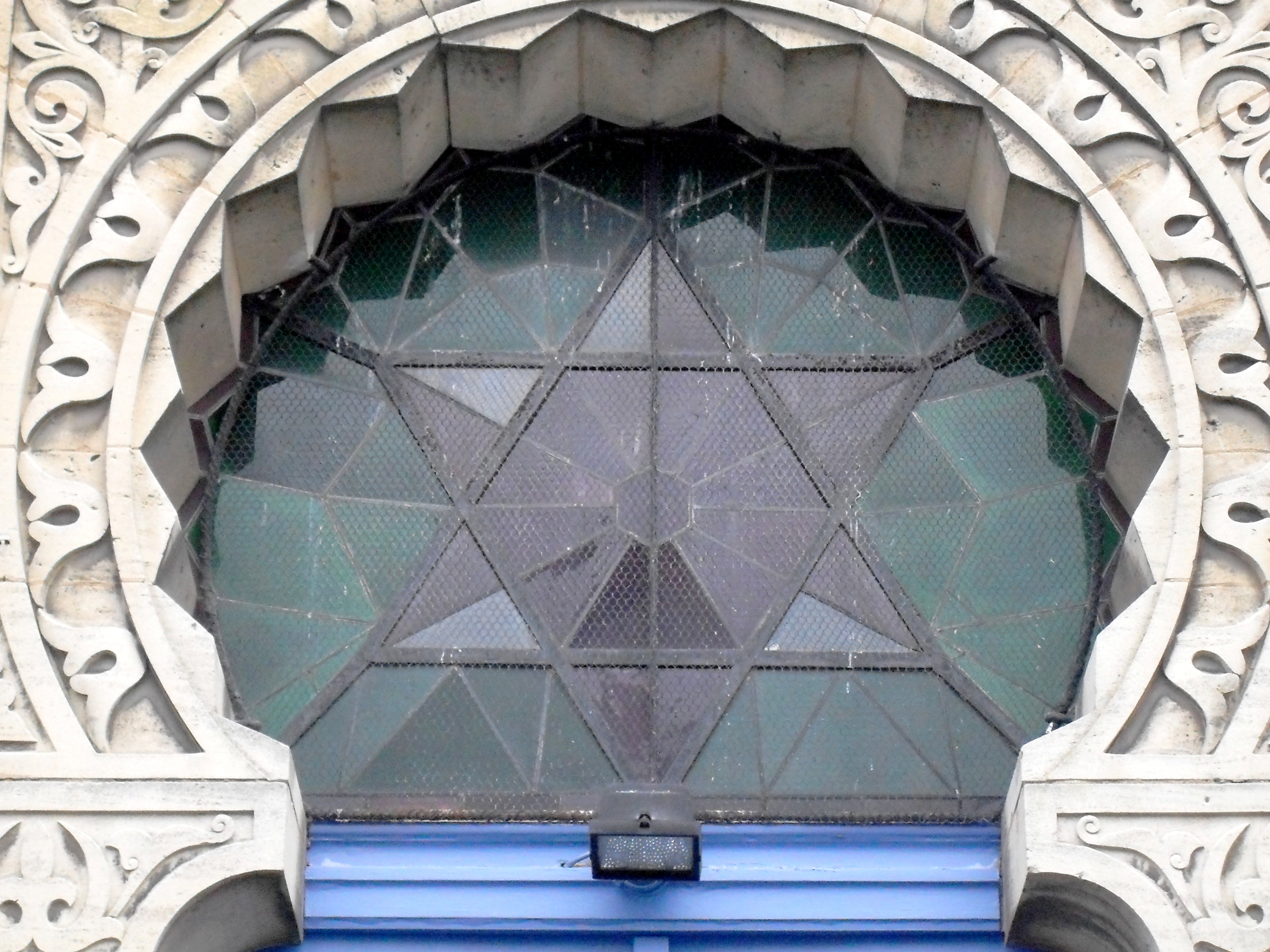 Synagogue of Chalons Marne (51)